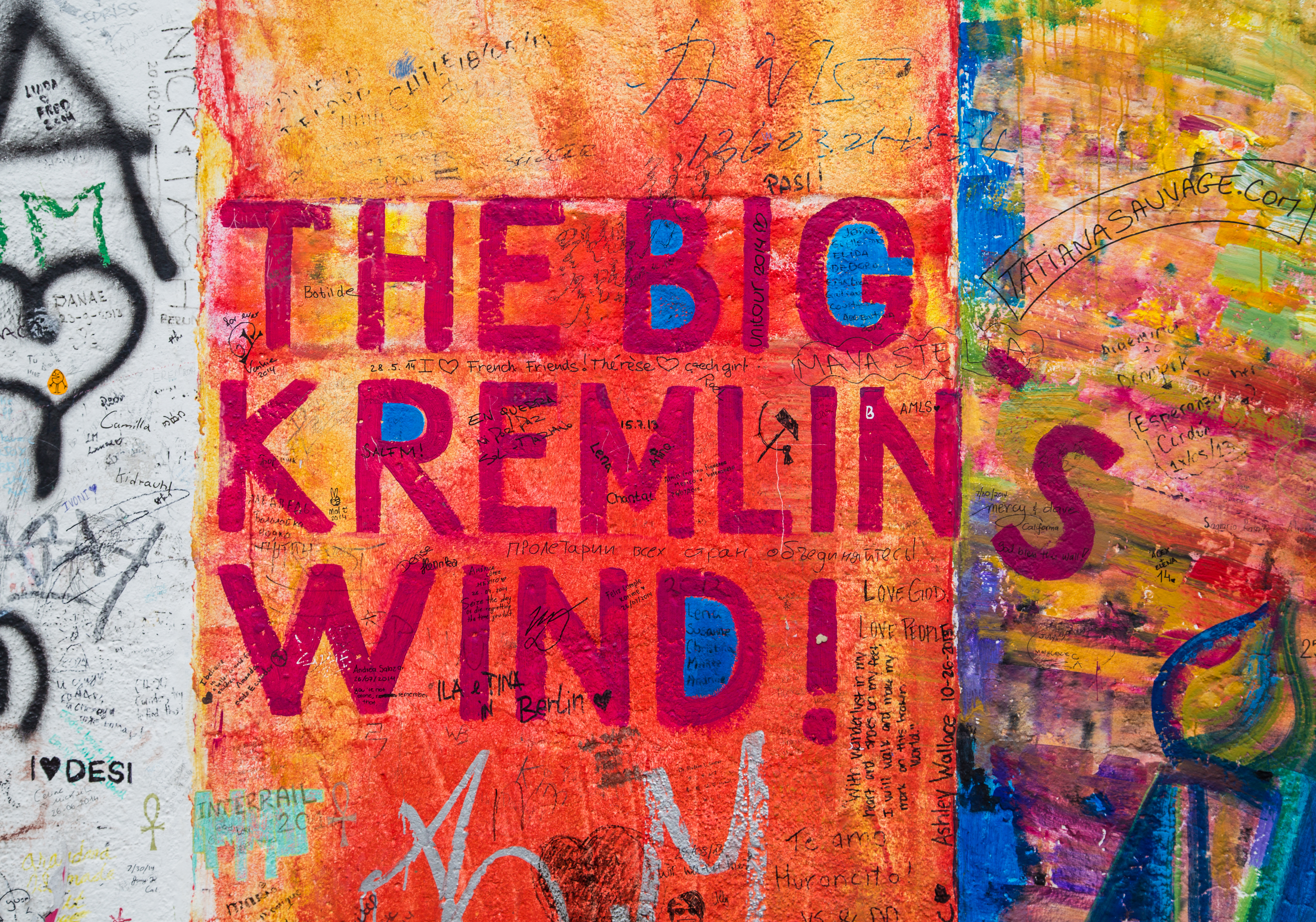 East Side Gallery, Berlin Wall